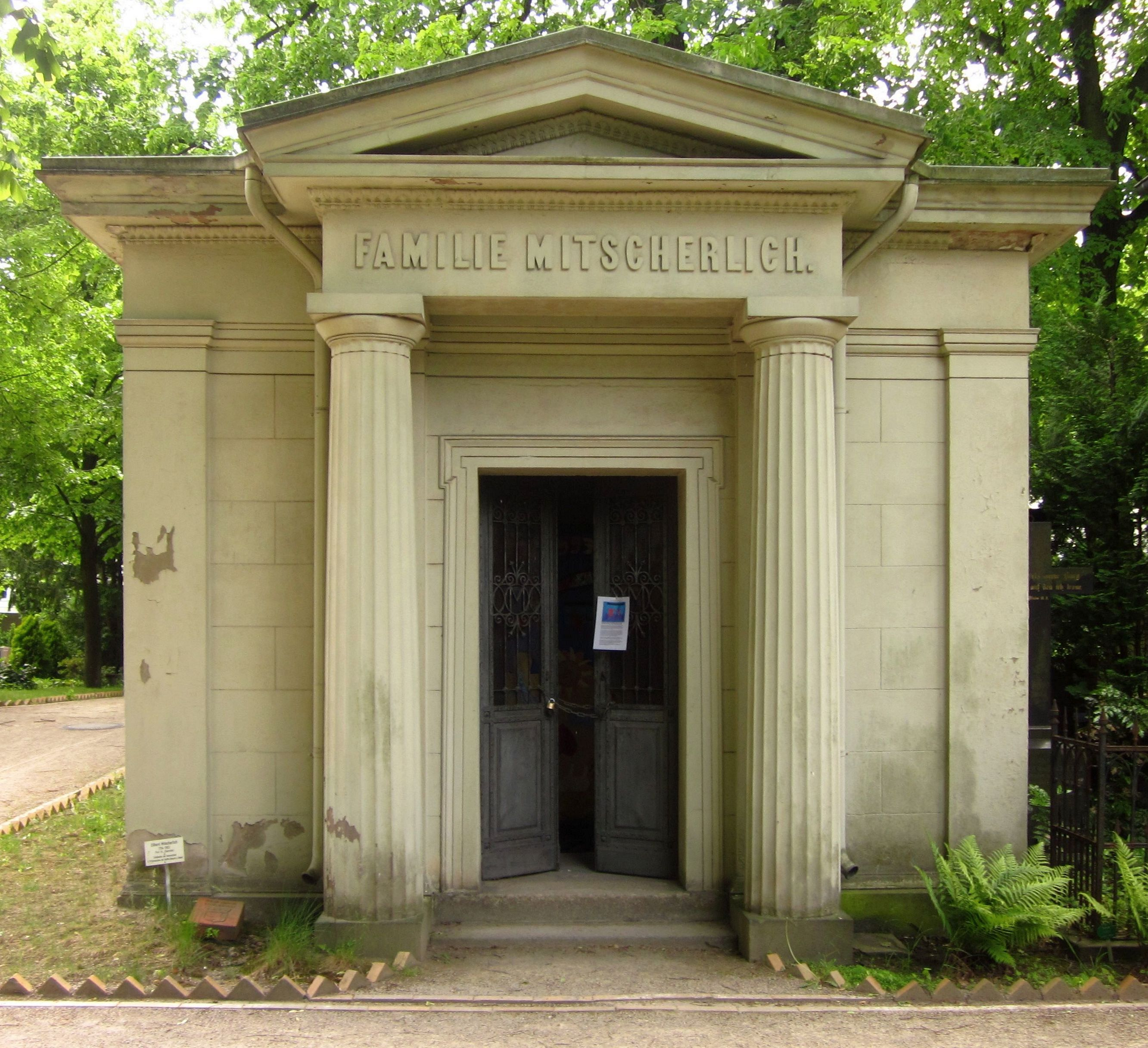 Mausoleum of the Mitscherlich family on the Old St. Matthew curchyard at Großgörschenstraße in Berlin-Schöneberg (field SU, F-SE-A). Those who found their final resting place here include the chemist and mineralogist Eilhard Mitscherlich (1794-1863). Grave of Honor of the State of Berlin.